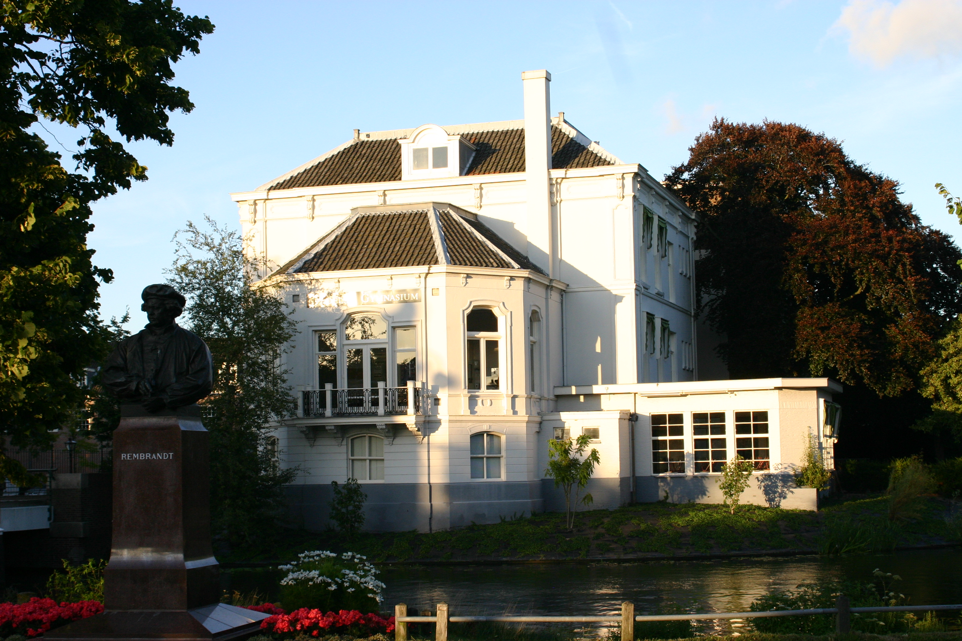 Noordeinde 1, Leiden, The Netherlands.Urban villa, designed by J.W. Schaap in 1866. Former residence of the director of the School for Maritime Officers. From 1922 to 2009 used as a school building by several primary and secundary schools.Left: statue of Rembrandt, who was born in Leiden.